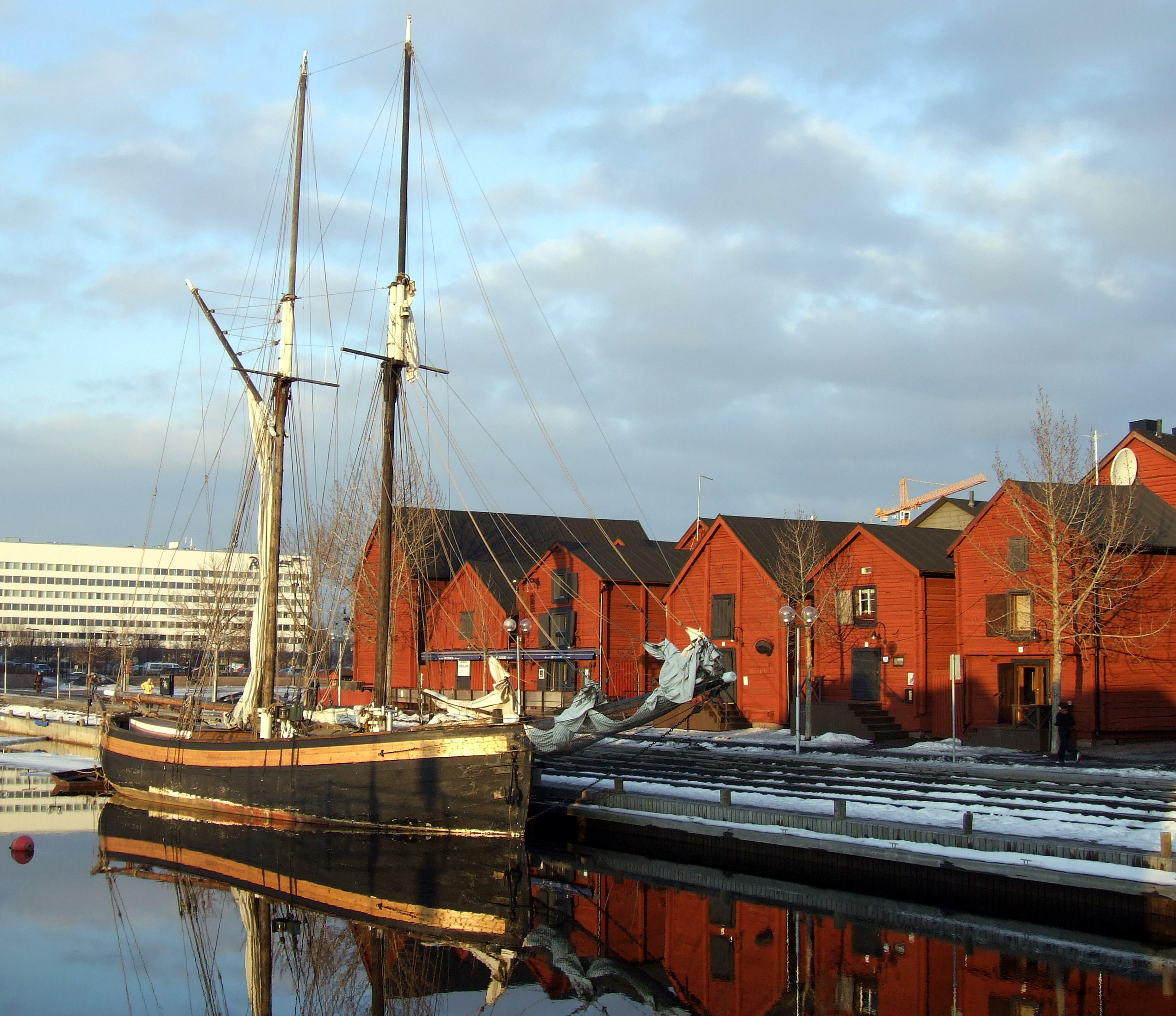 Schooner Mystic Wind at the Oulu Market Square pier.